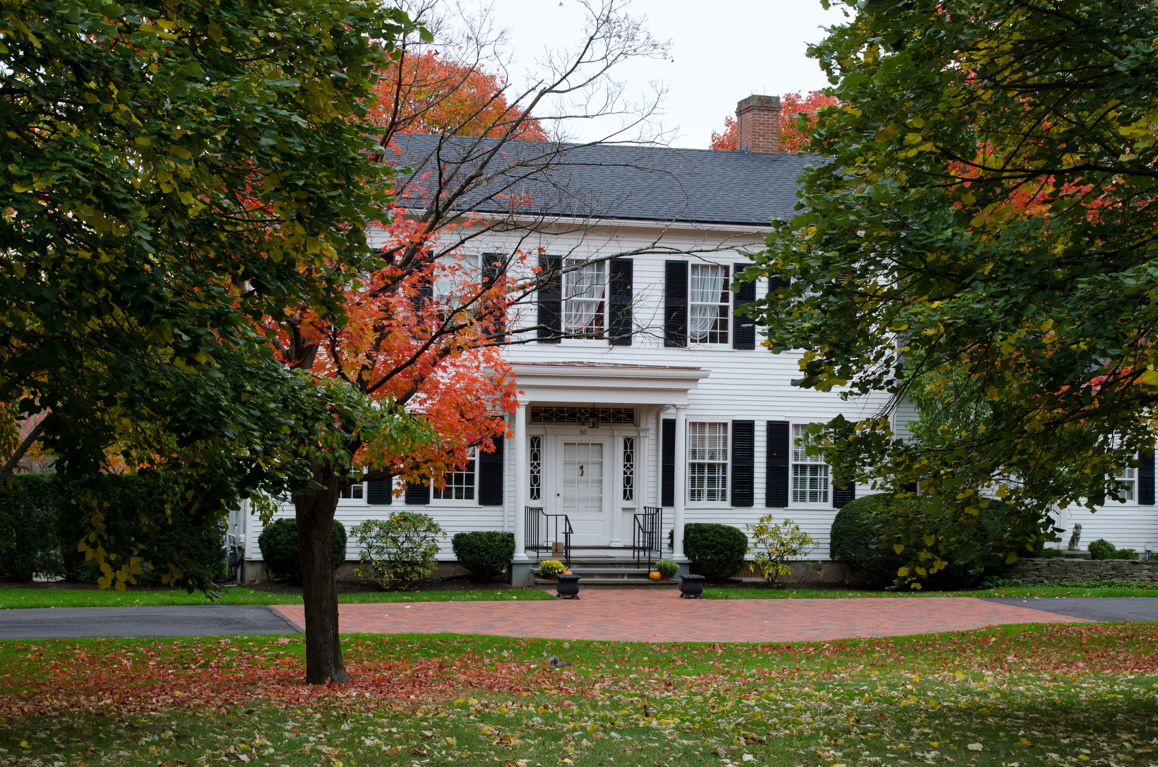 The Thomas Youngs House in Pittsford, New York.